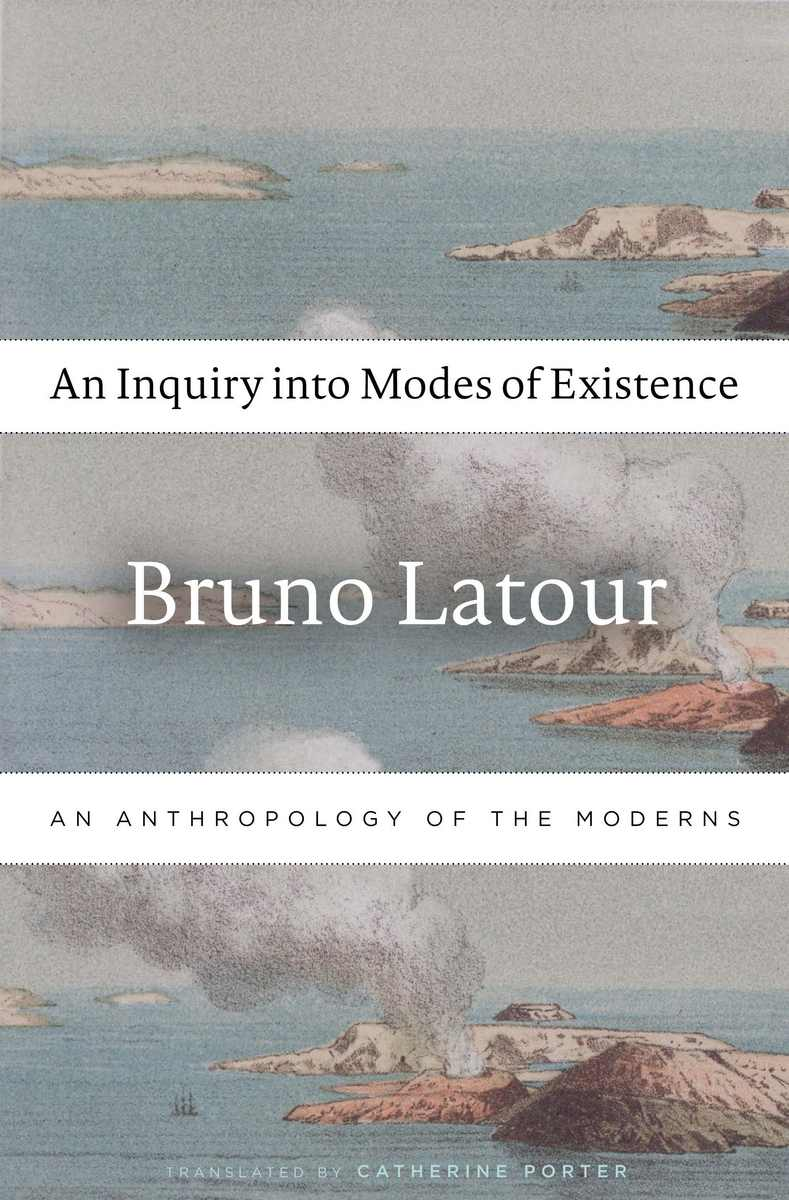 Jacket art for An Inquiry into Modes of Existence (Bruno Latour, Boston, MA: Harvard University Press 2013).